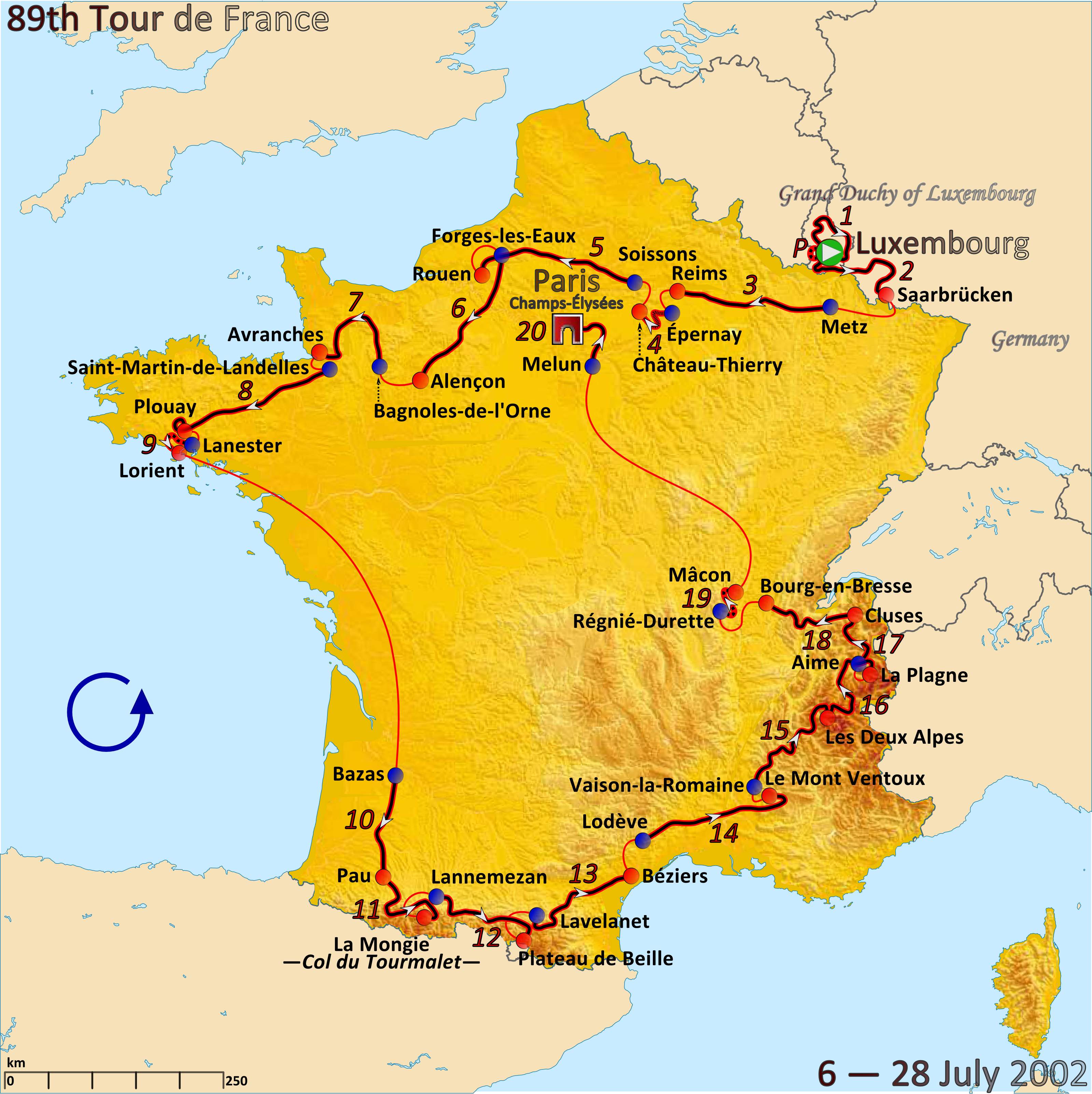 Map of the 2002 Tour de France created in Inkscape